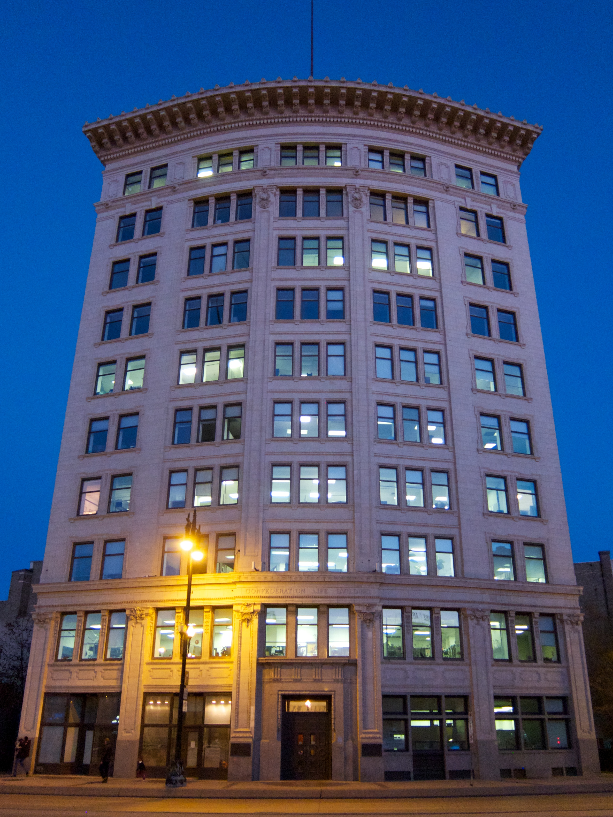 Confederation Building, 475 Main, Exchage District